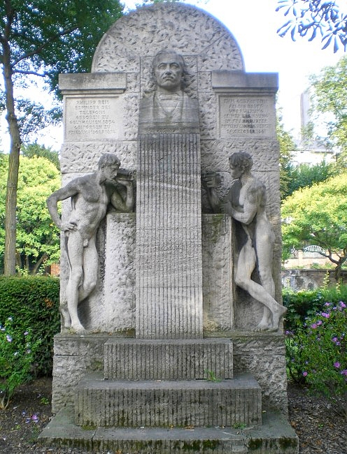 Johann Philipp Reis (7.01.1834-14.01.1874) german scientist and inventor, Monument in Frankfurt am Main (Germany)